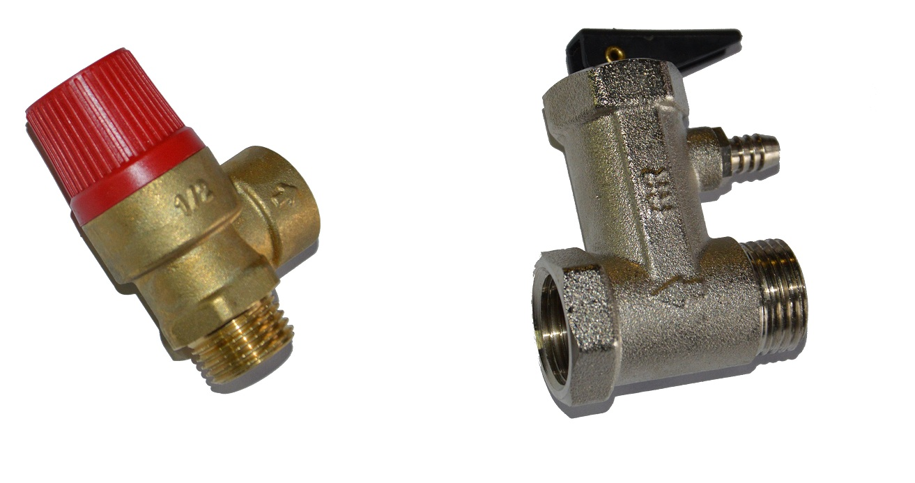 Valve for water protection against excessive pressure